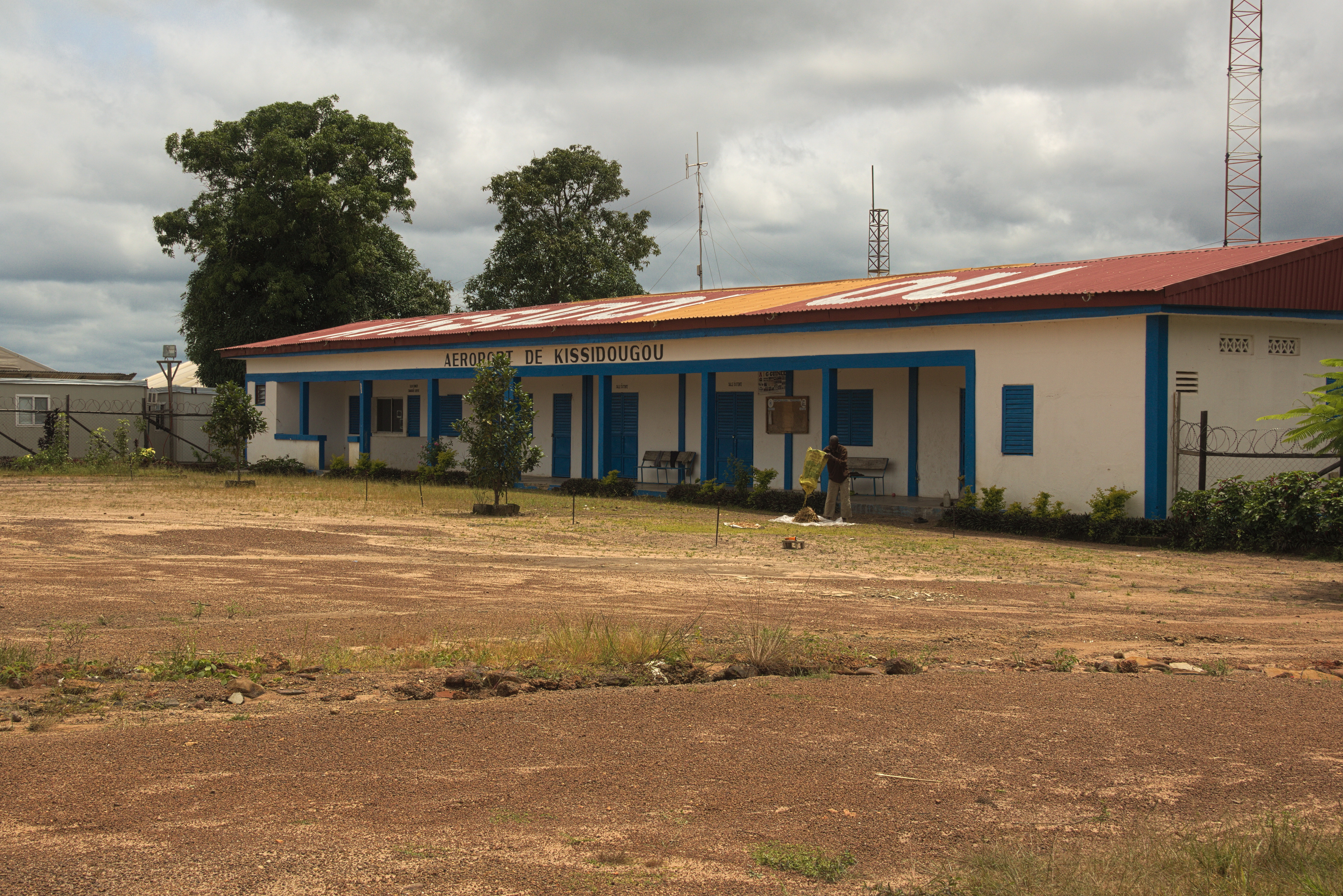 Kissidougou Airport Terminal